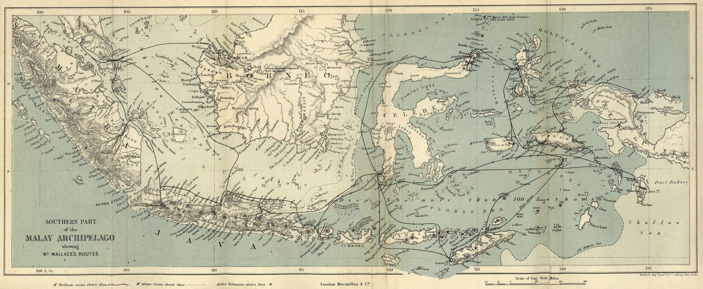 Large fold-out coloured map at front of Alfred Russel Wallace's book The Malay Archipelago, Macmillan, 1869